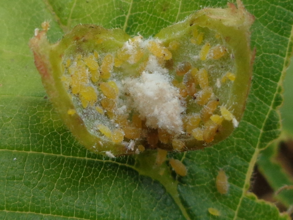 Tetraneura ulmi. Found in Riga town, Latvia